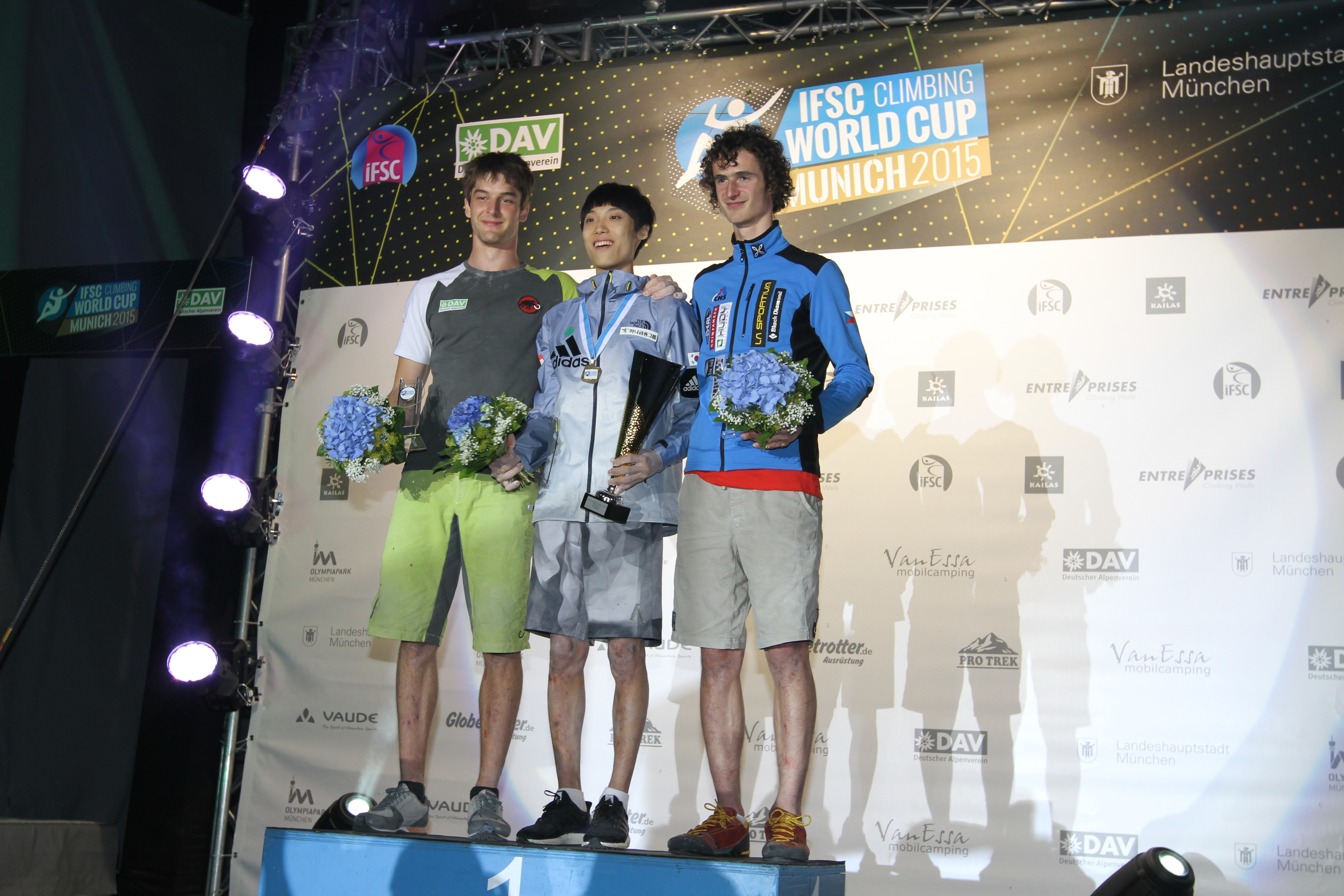 IFSC Boulder Worldcup, Munich 2015. Winners of the men's saison: 1: Chon, Jongwon (KOR), 2: Hojer, Jan (GER), 3: Ondra, Adam (CZE)